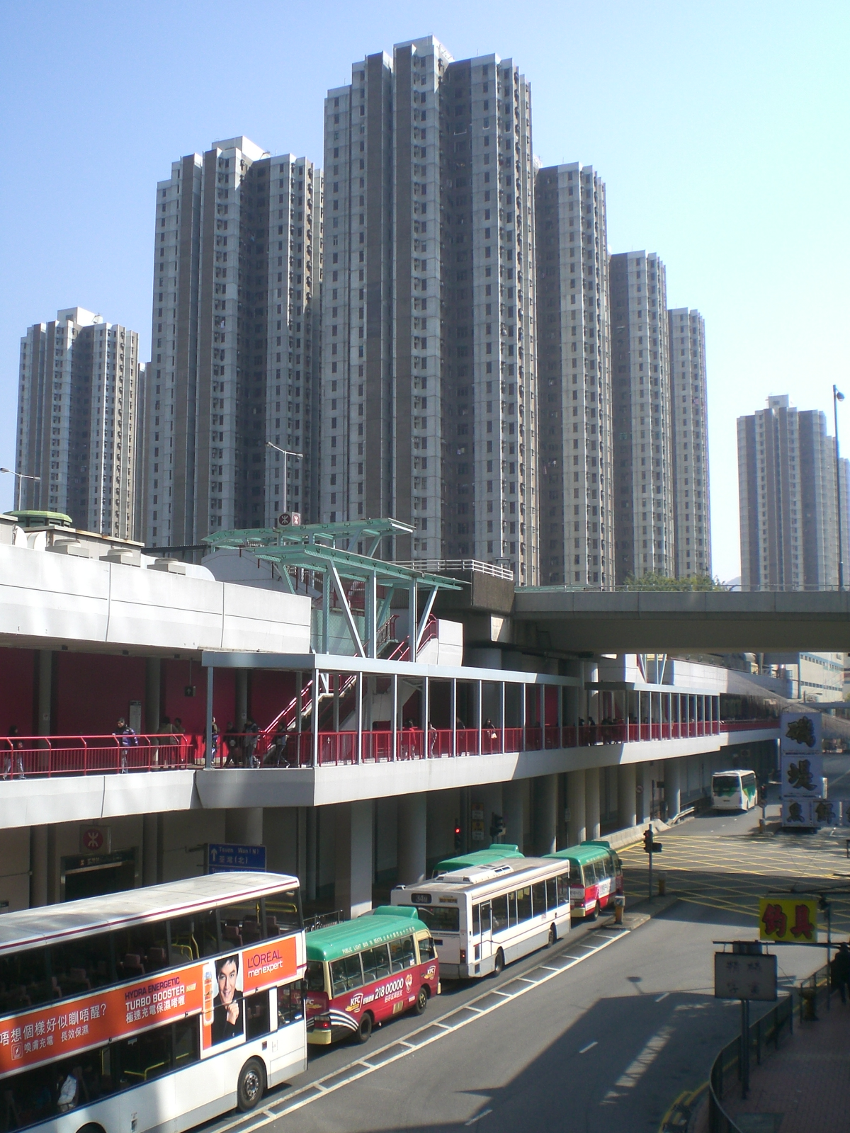 荃灣 西樓角路 綠楊新邨 荃灣站